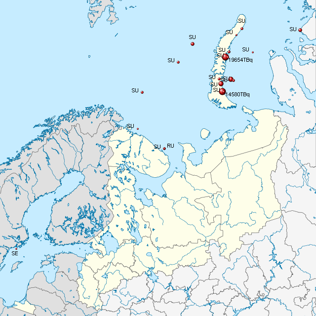 Arctic ocean dump sites of radioactive waste. SU=USSR (38,369TBq), RU=Russia (0.7TBq), SE=Sweden. source=IAEA_tecdoc_1105